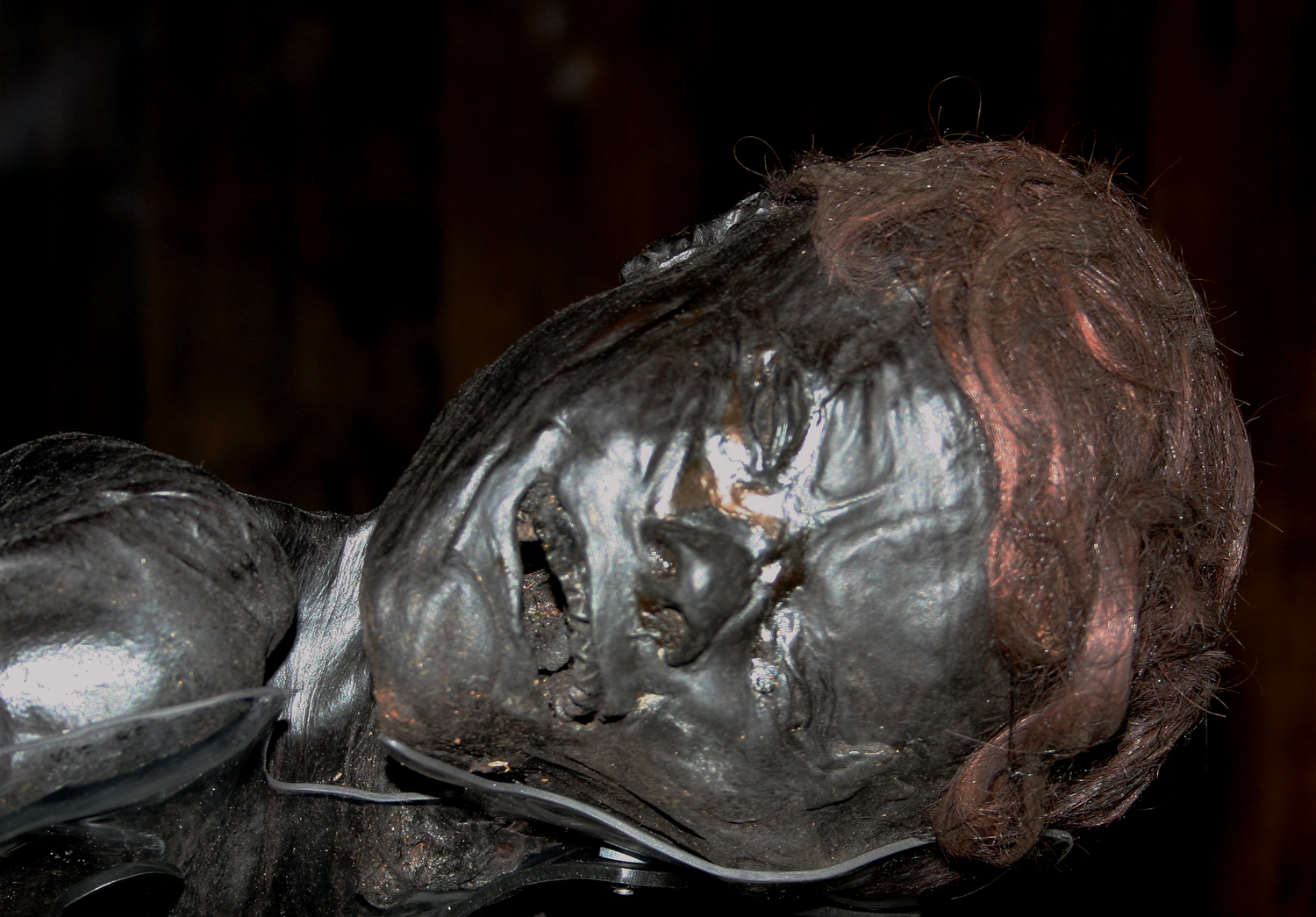 Grauballe-Man at Moesgaard-Museum, Denmark